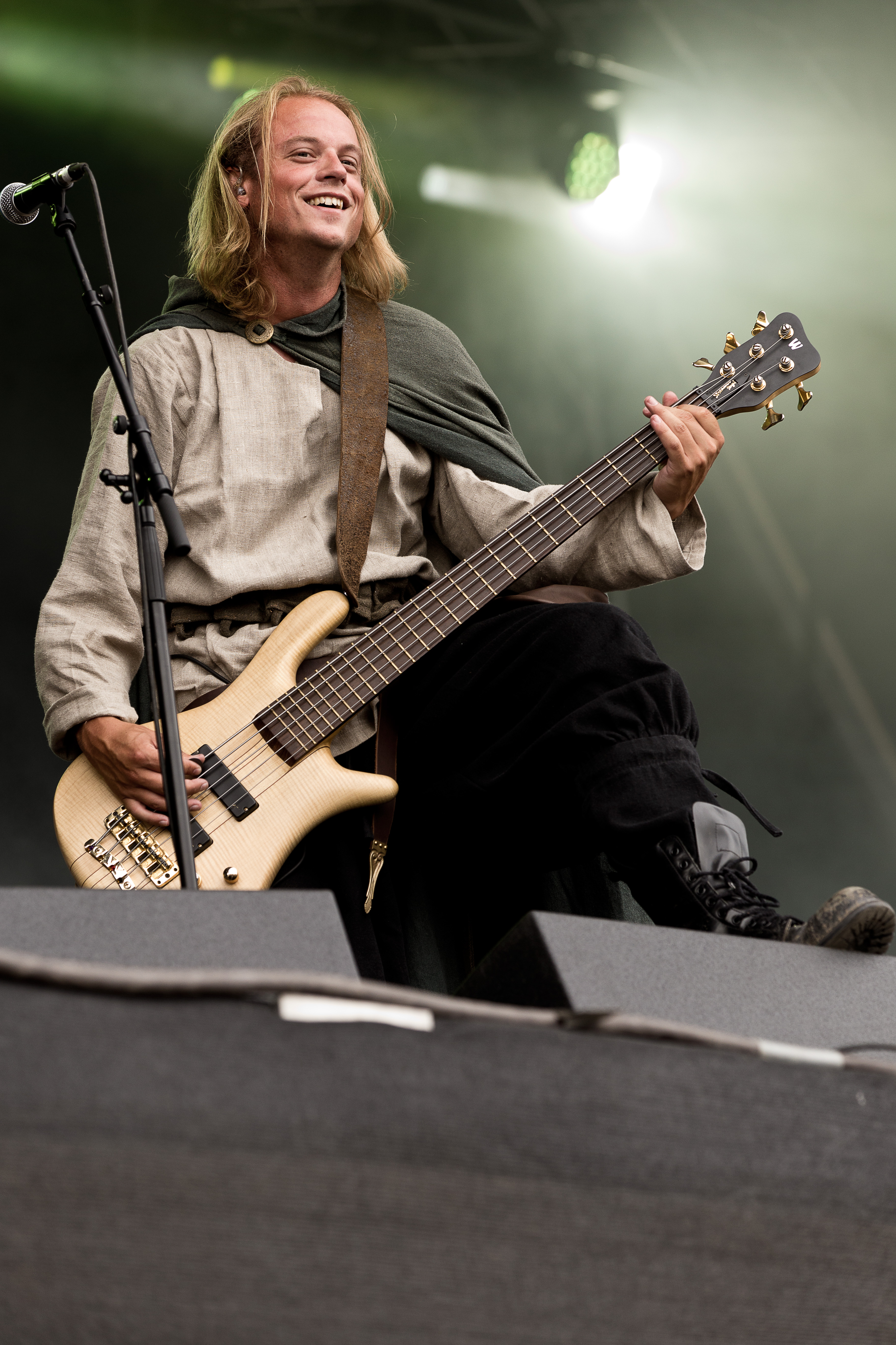 The Swedish power metal band Twilight Force at the Rockharz Open Air 2016 in Ballenstedt/Germany.